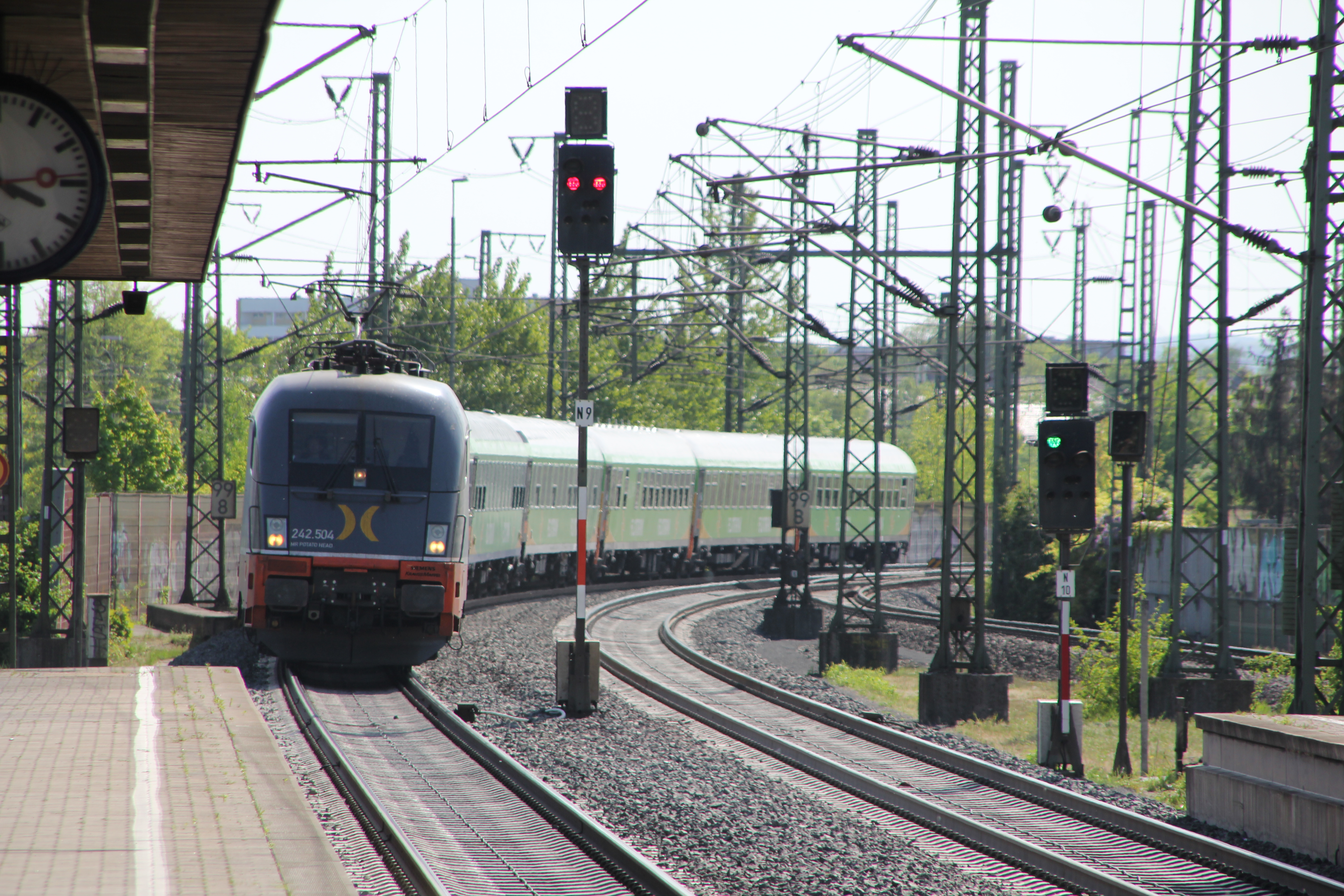 The FlixTrain, operated by LeoExpress, is approaching the station Göttingen